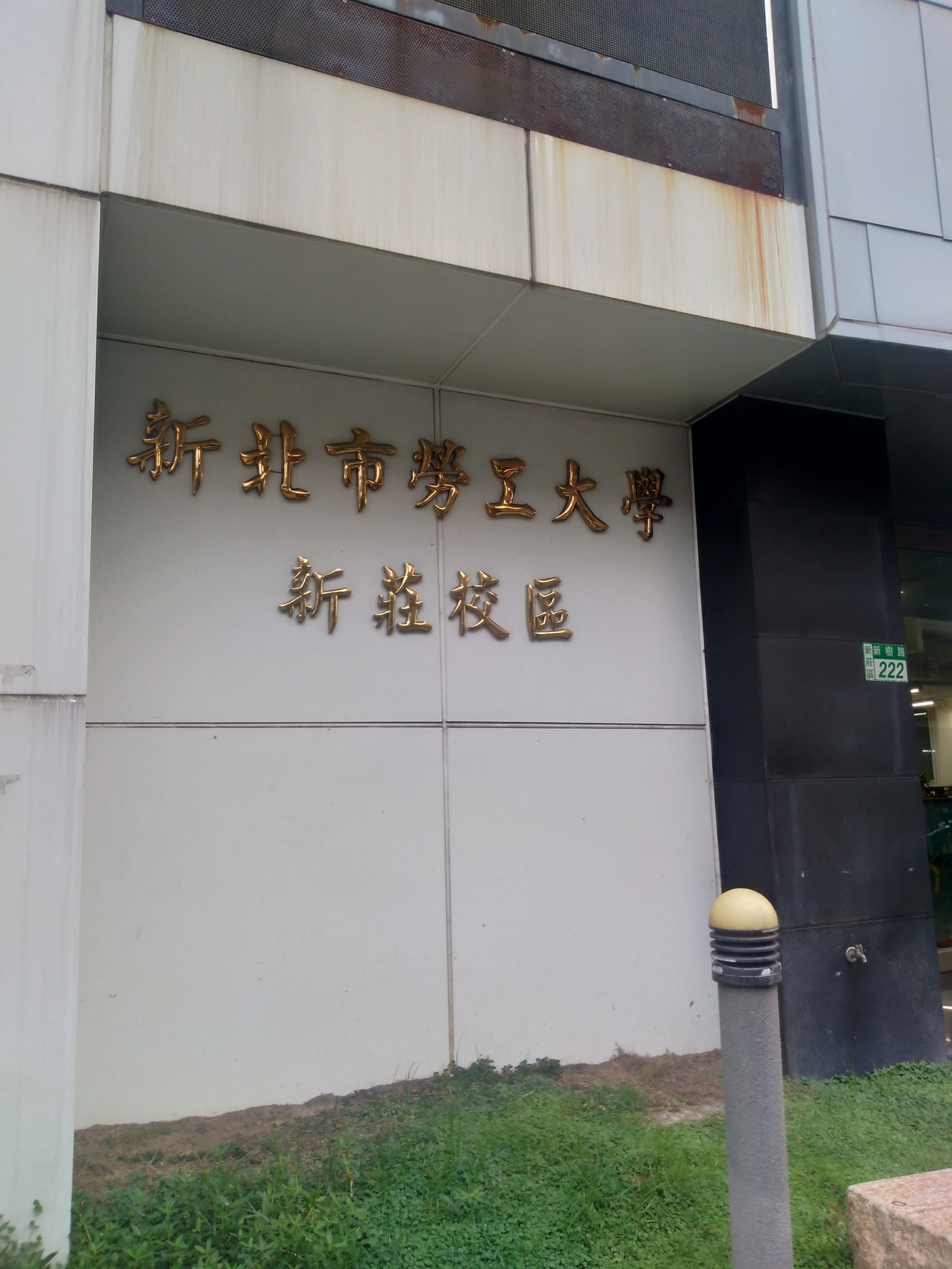 The labor university of New Taipei city at xin jhuang